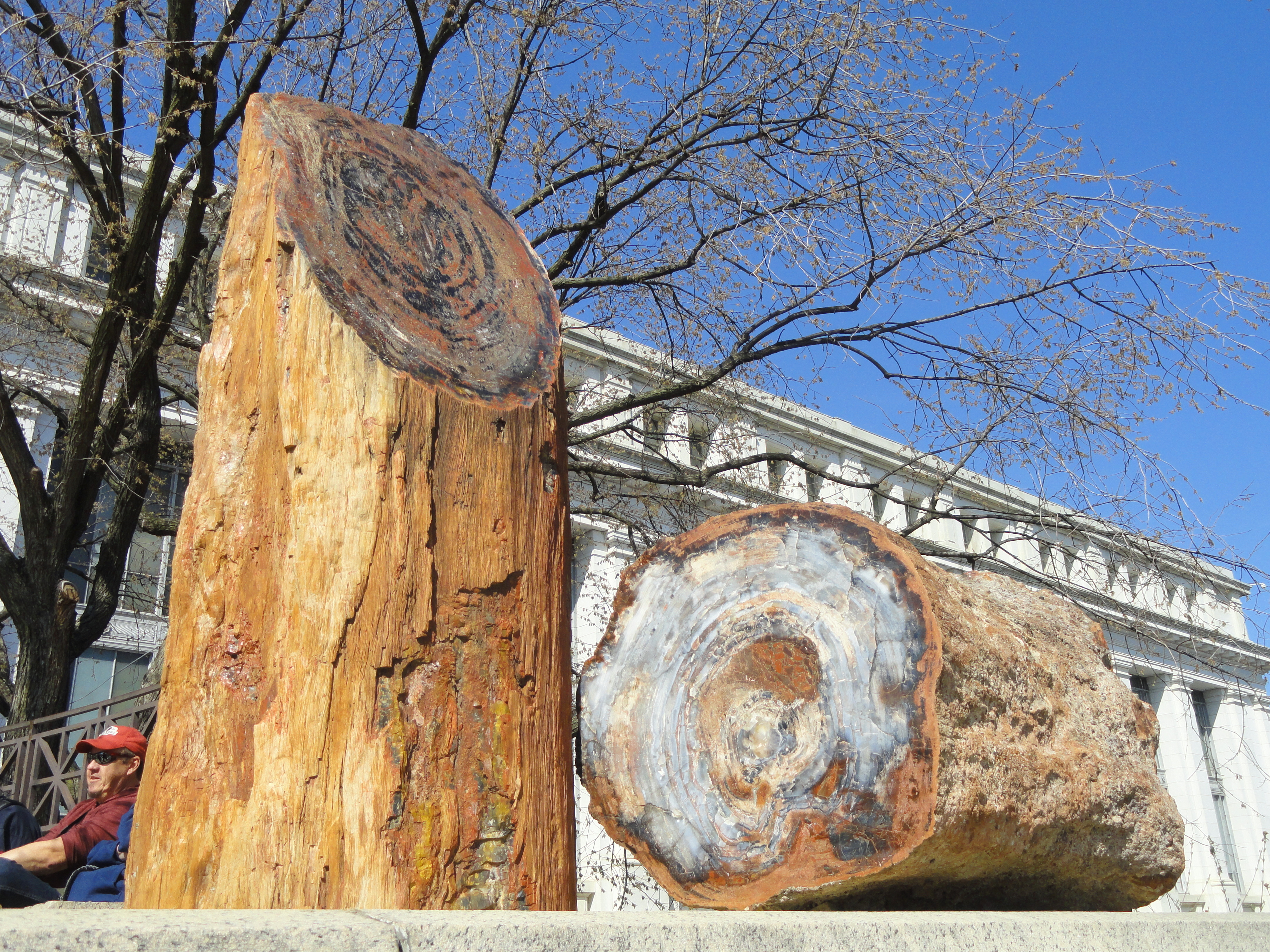 Fossil Araucarioxylon arizonicum (petrified wood) outside the National Museum of Natural History, USA, in Washington, DC, USA.